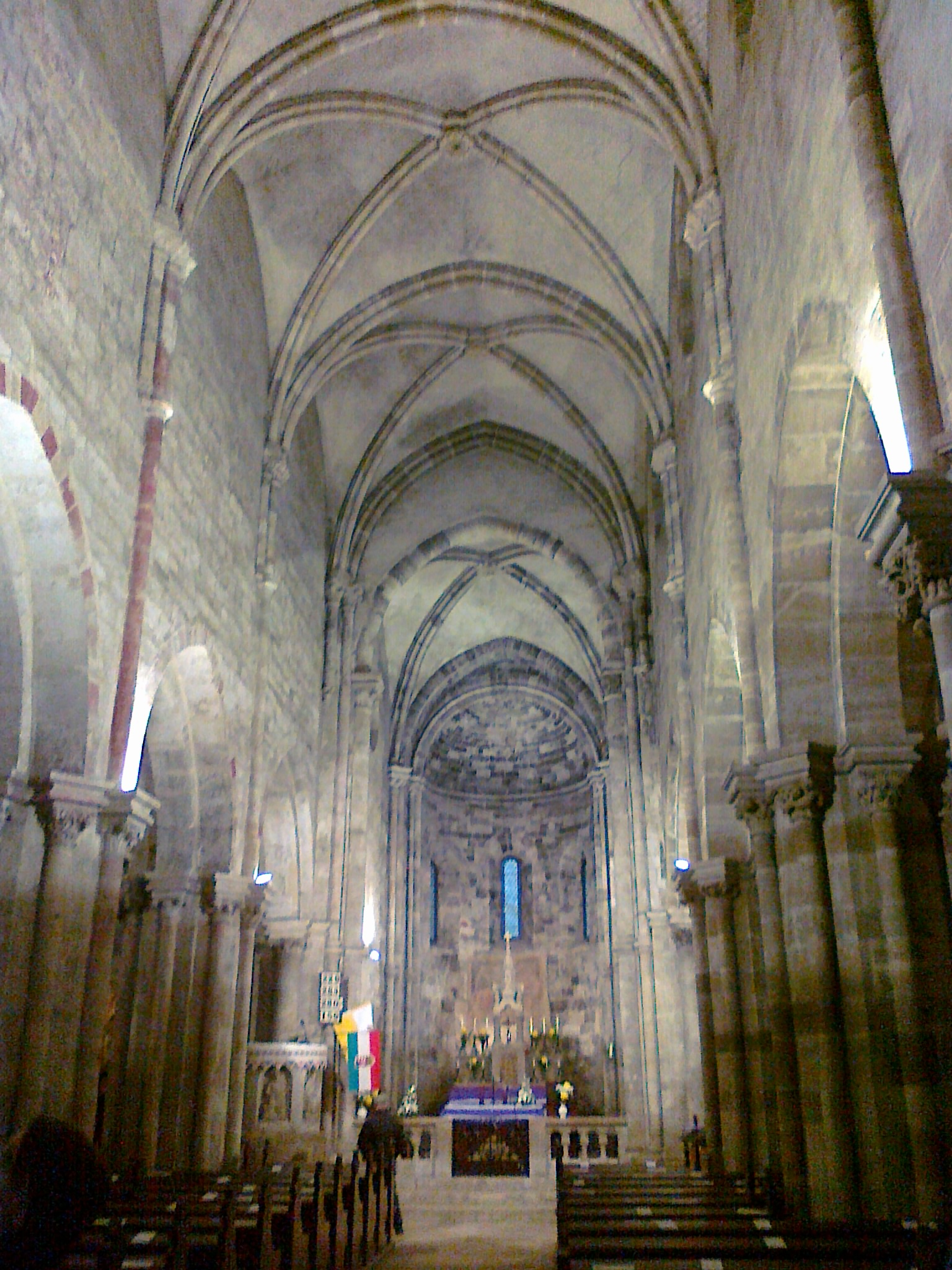 Main nave of the Church of Ják, Hungary